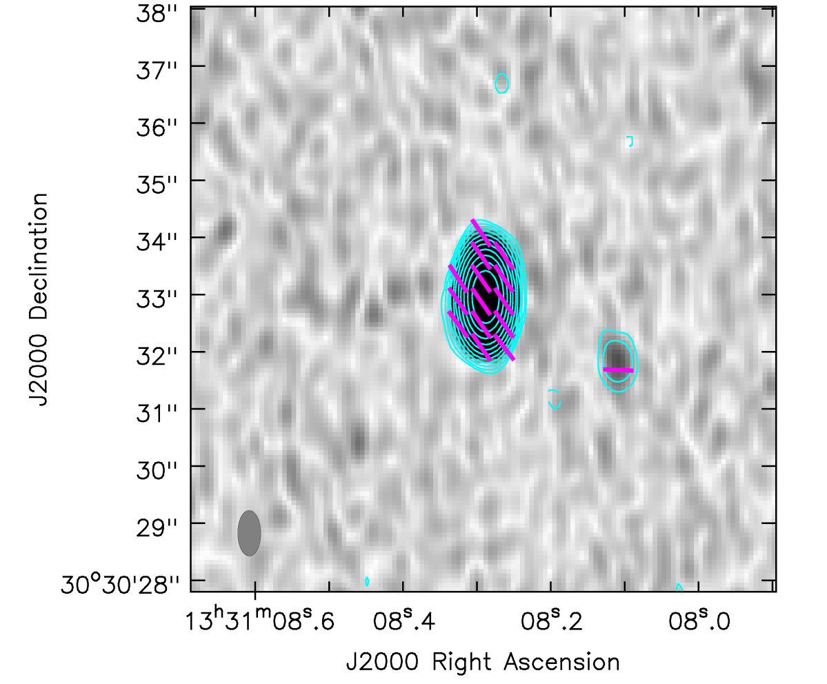 The contours represent the intensity of the radio waves emitted by 3C 286 and the purple bars show the polarization direction. The smaller region of emission to the right is a part of the jet ejected by the quasar, which is the central peak.